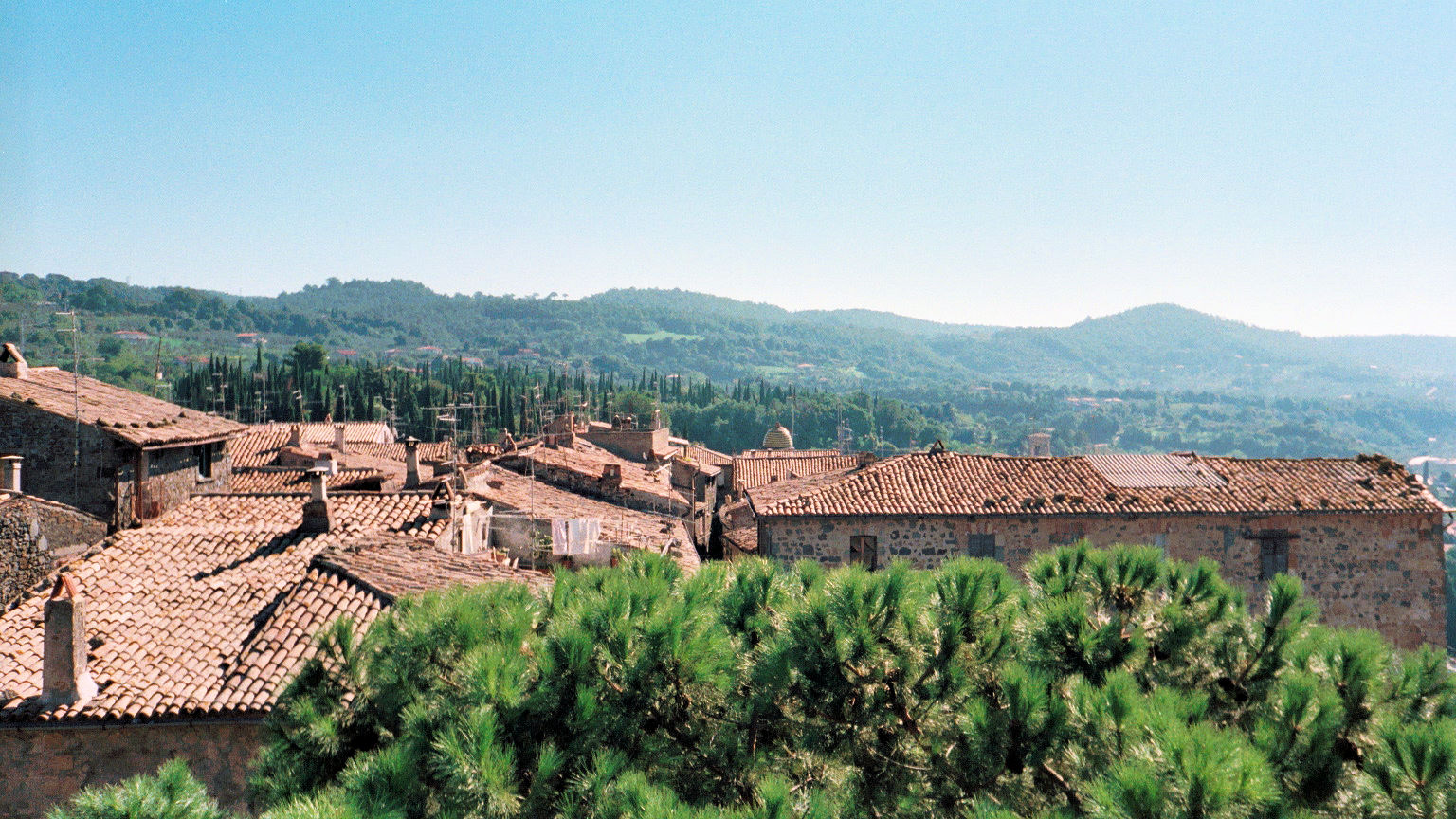 From author: "Bolsena is a town and comune of Italy, in the province of Viterbo in northern Lazio on the eastern shore of Lake Bolsena. It is 10 km (6 mi) NNW of Montefiascone and 36 km (22 mi) NW of Viterbo."